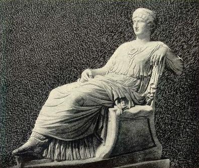 From a photograph. Copyright by Alinari. Statue of Agrippina the Younger (rectius, Helena of Constantinople), in the Capitoline museums, Rome.